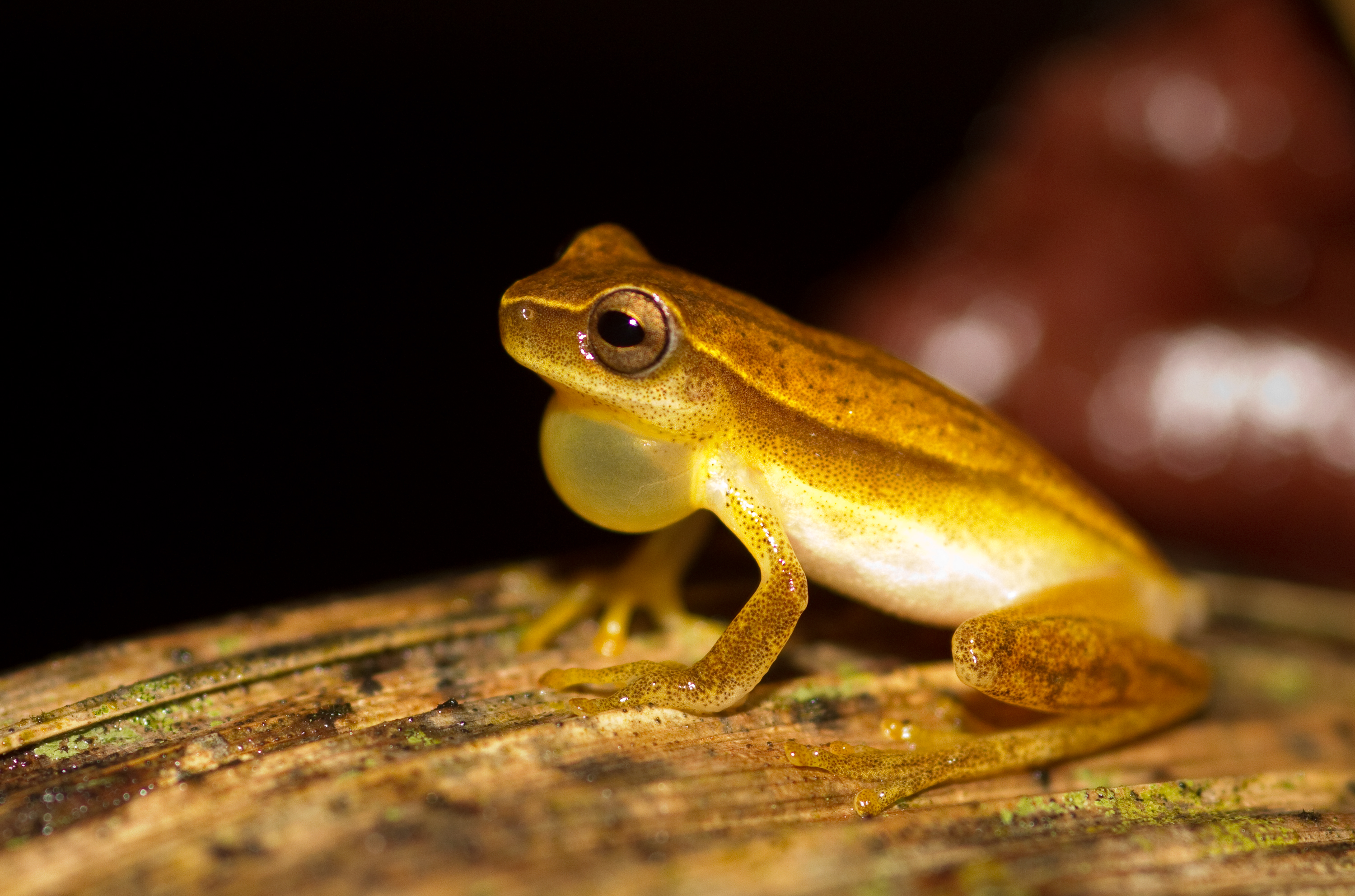 Hourglass tree frog